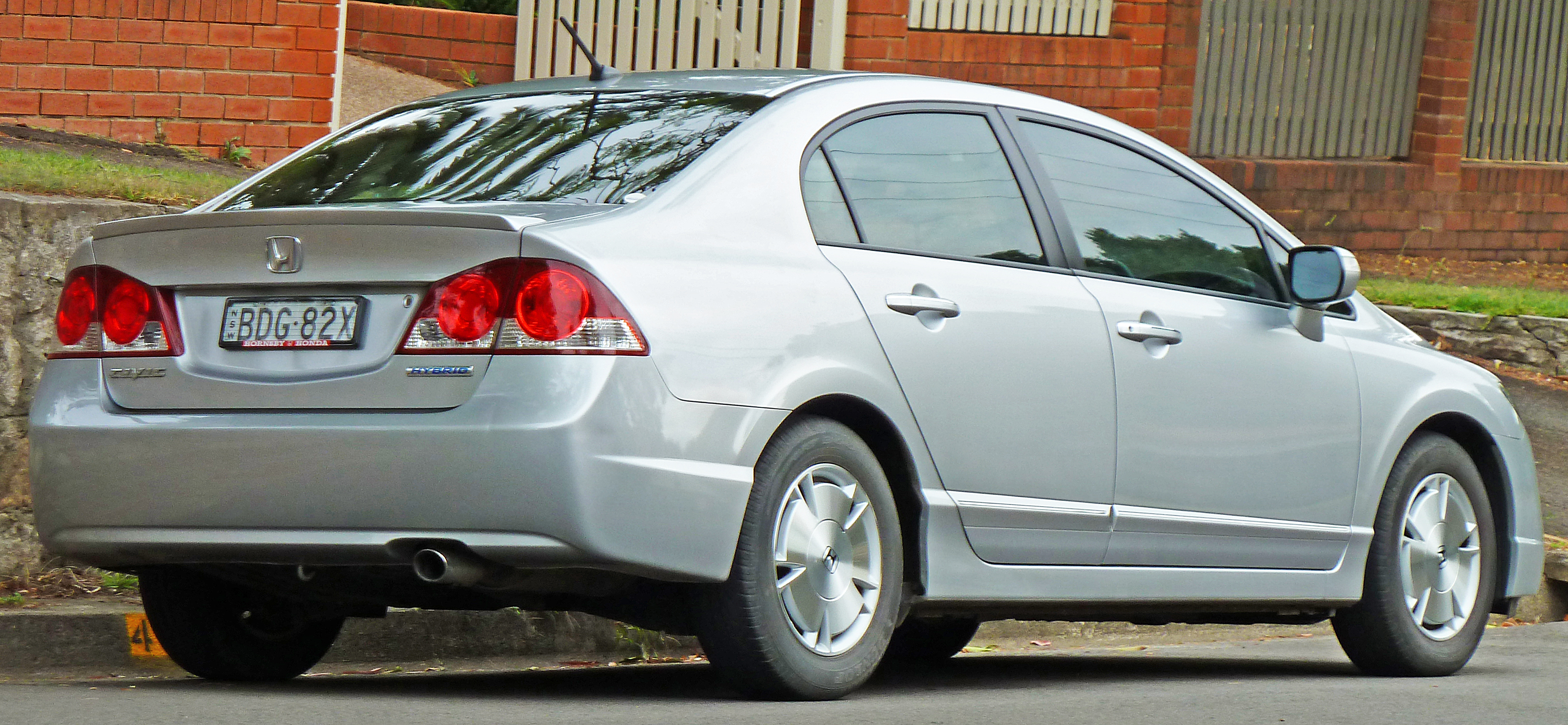 2006–2008 Honda Civic Hybrid sedan. Photographed in Lindfield, New South Wales, Australia.